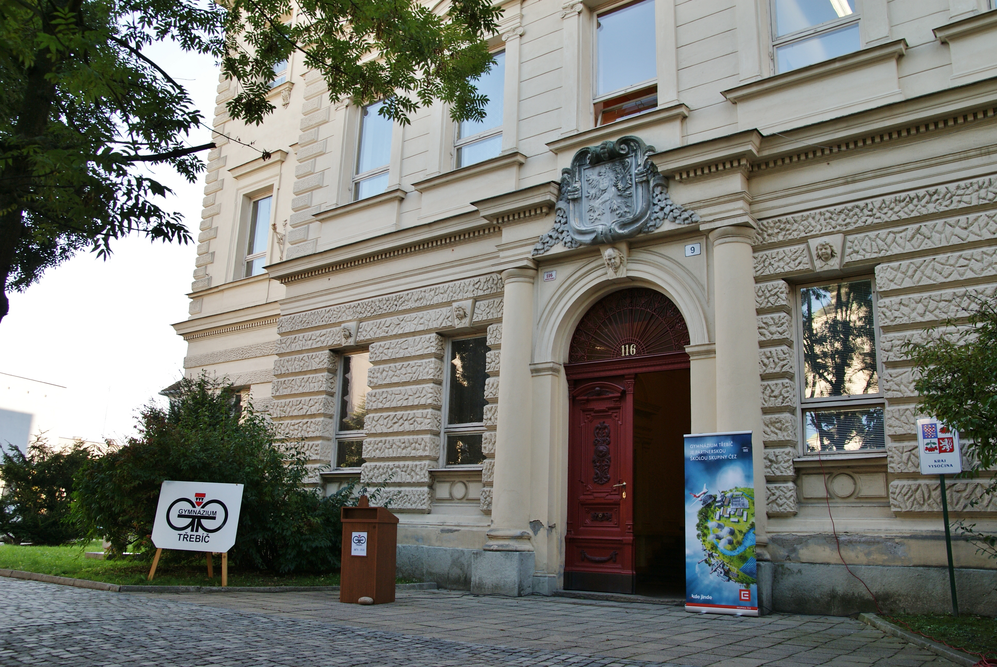 Main entry to Gymnázium Třebíč